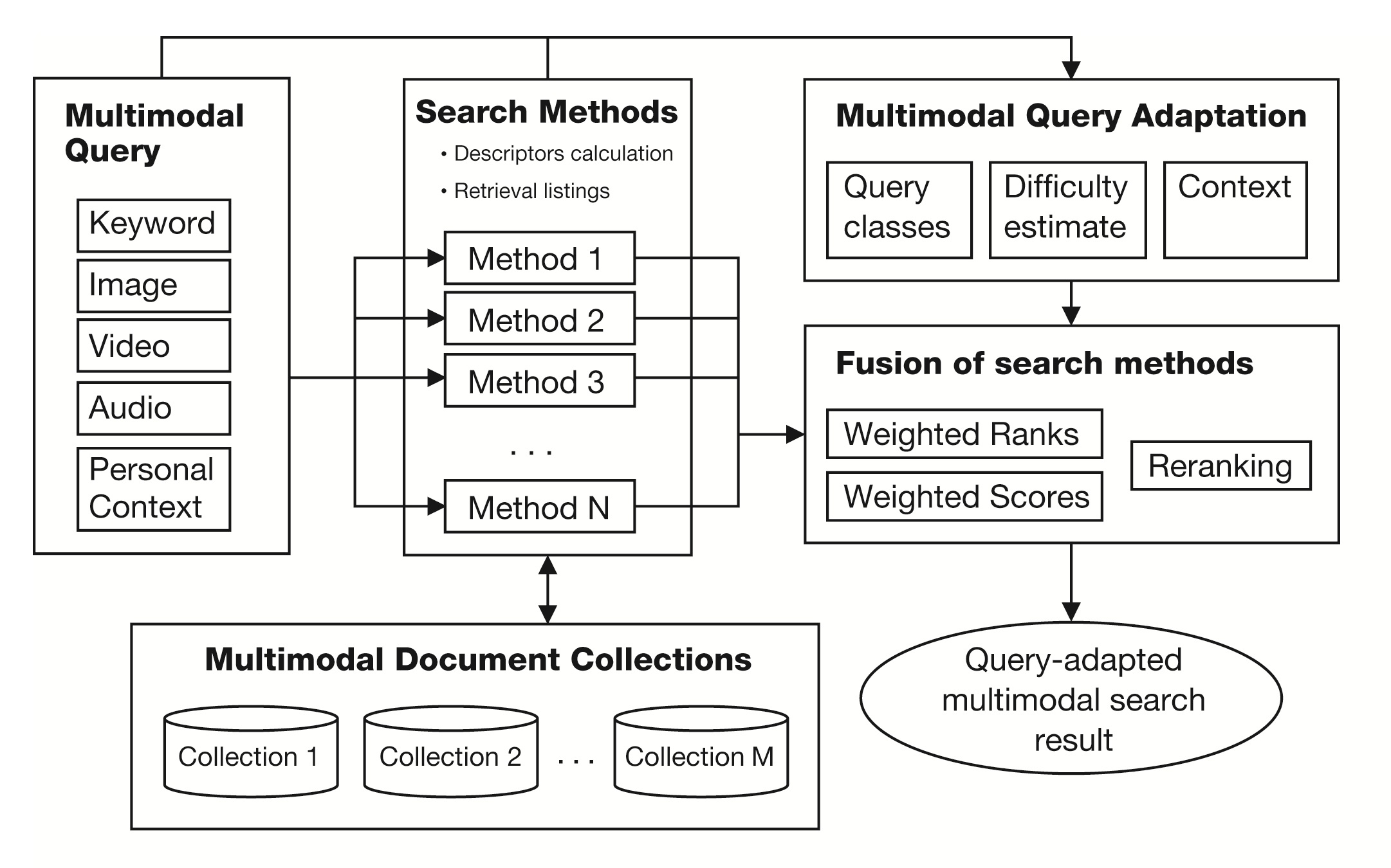 General framework of a multimodal Search